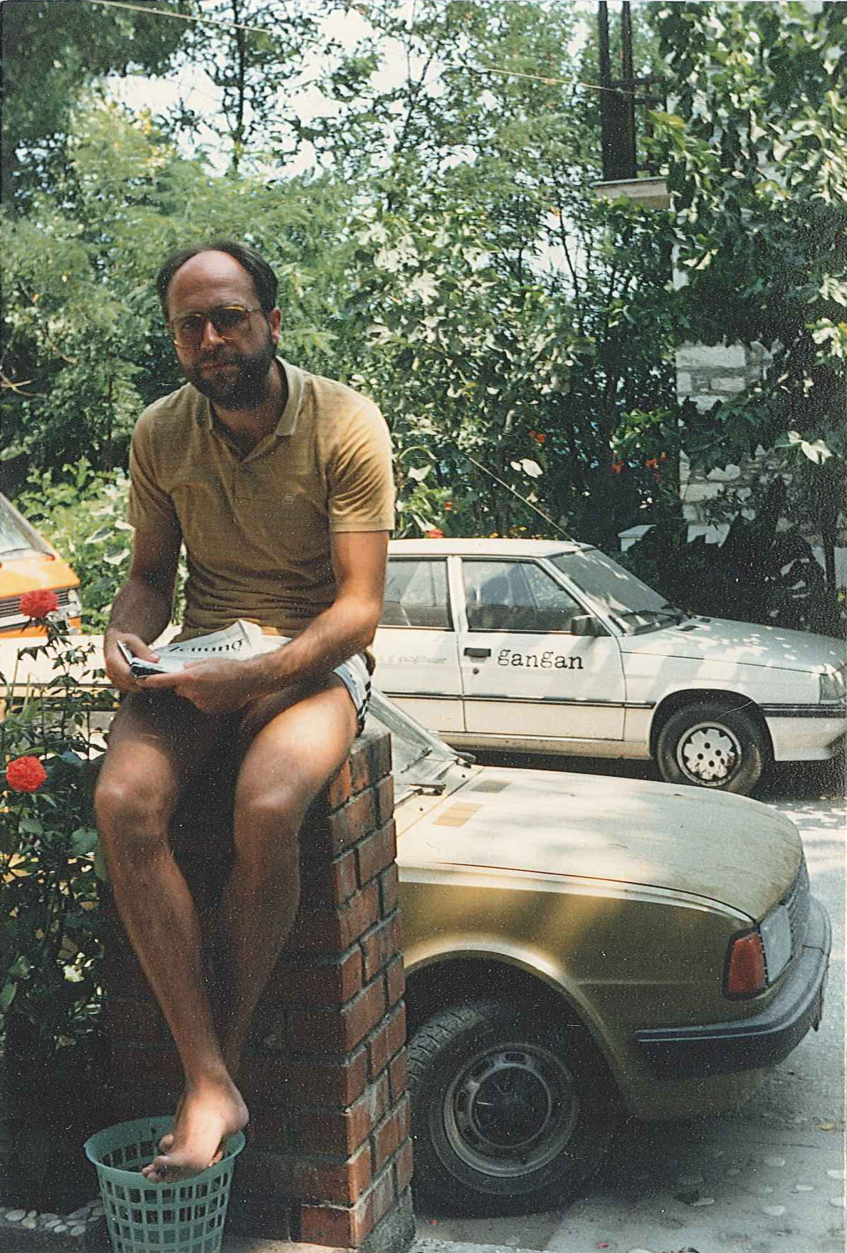 The Austrian writer Reinhold Aumaier in Greece with Doris Glaser and Gerald Ganglbauer.